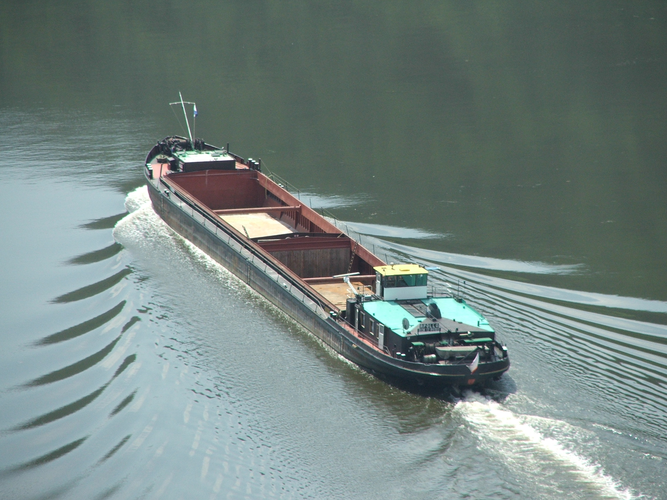 Cargo ship on river Elbe in Czech Republic